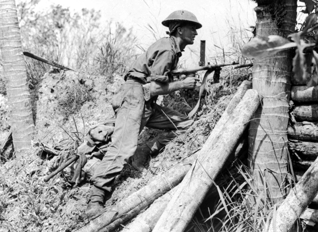 A soldier from the Australian 2/43rd Battalion armed with an Owen Gun in a bomber dispersal bay at Labuan airstrip on the day of the Australian landing there